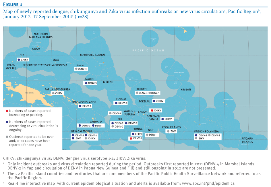 Map of Zika, chikungunya and dengue fever outbreaks in the Pacific Ocean from journal Eurosurveilance (Euro Surveill. 2014 Oct 16;19(41). pii: 20929.)